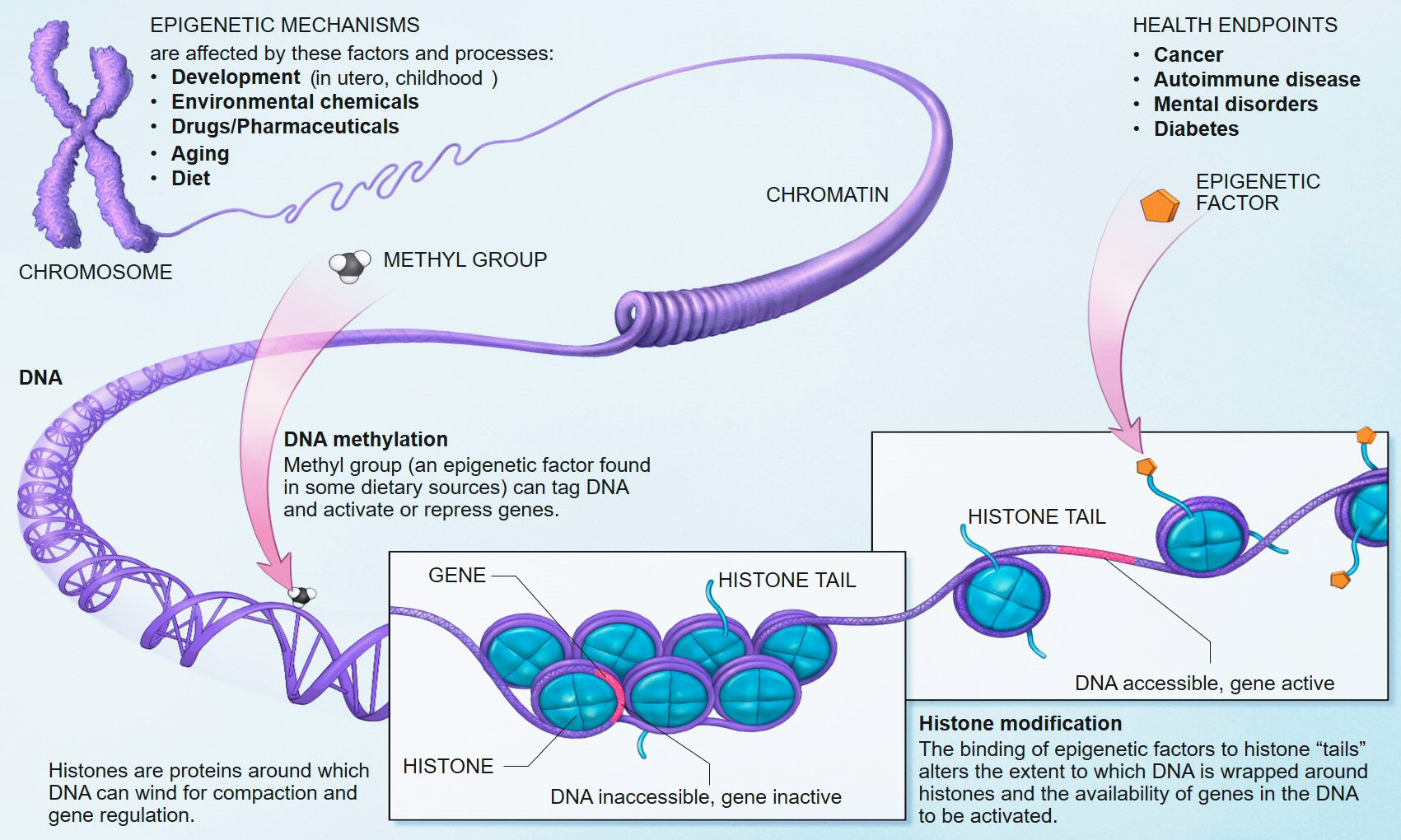 Epigenetic mechanisms are affected by several factors and processes including development in utero and in childhood, environmental chemicals, drugs and pharmaceuticals, aging, and diet. DNA methylation is what occurs when methyl groups, an epigenetic factor found in some dietary sources, can tag DNA and activate or repress genes. Histones are proteins around which DNA can wind for compaction and gene regulation. Histone modification occurs when the binding of epigenetic factors to histone “tails” alters the extent to which DNA is wrapped around histones and the availability of genes in the DNA to be activated. All of these factors and processes can have an effect on people’s health and influence their health possibly resulting in cancer, autoimmune disease, mental disorders, or diabetes among other illnesses. National Institutes of Health